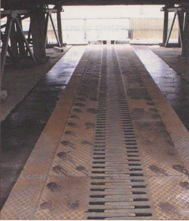 Erneuerung einer Fahrbahndehnfuge unter Fly Over